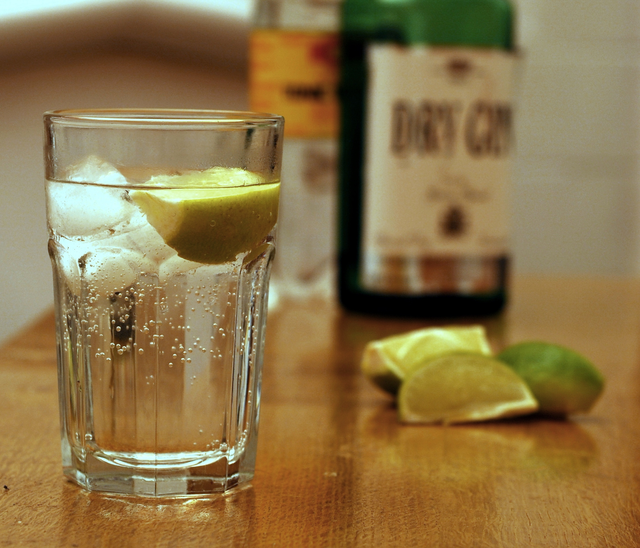 Gin and tonic with lime in a highball glass, with the ingredients behind